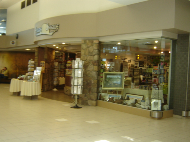 Prairie Unique shop at Saskatoon John G. Diefenbaker International Airport